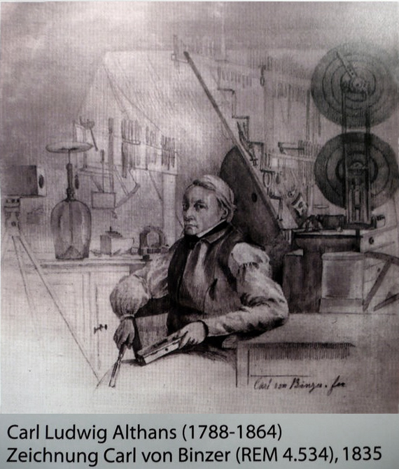 Architect Carl Ludwig Althans, Sayner Huette (Bendorf-Sayn)